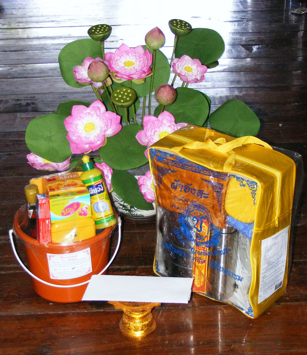 offering dedicated to Buddhist bucket yellow monks Location: Wat Khung Taphao Ban Khung Taphao, Khung Taphao subdistrict, Mueang Uttaradit, Uttaradit Province, Thailand.